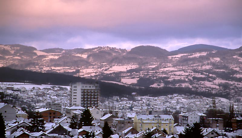 Gornji Milanovac in Serbia, panoramic view